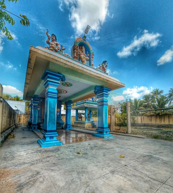 Mampatti Chola Vinayagar Temple